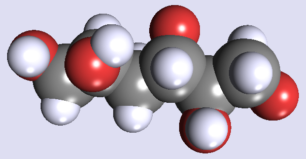 Output of PubChem's program PC3D for D-Mannitol as linked from PubChem.